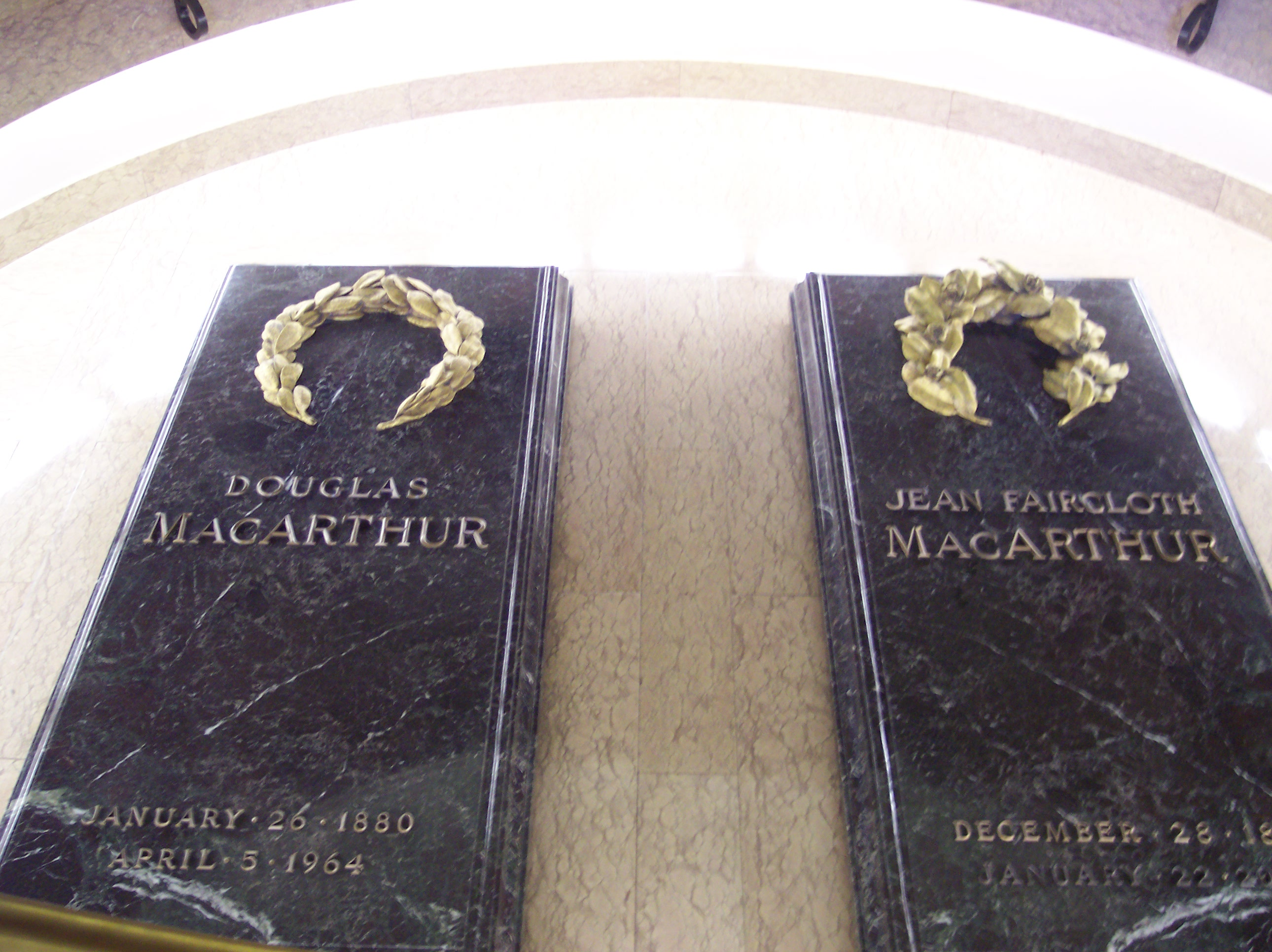 Douglas MacArthur's grave.